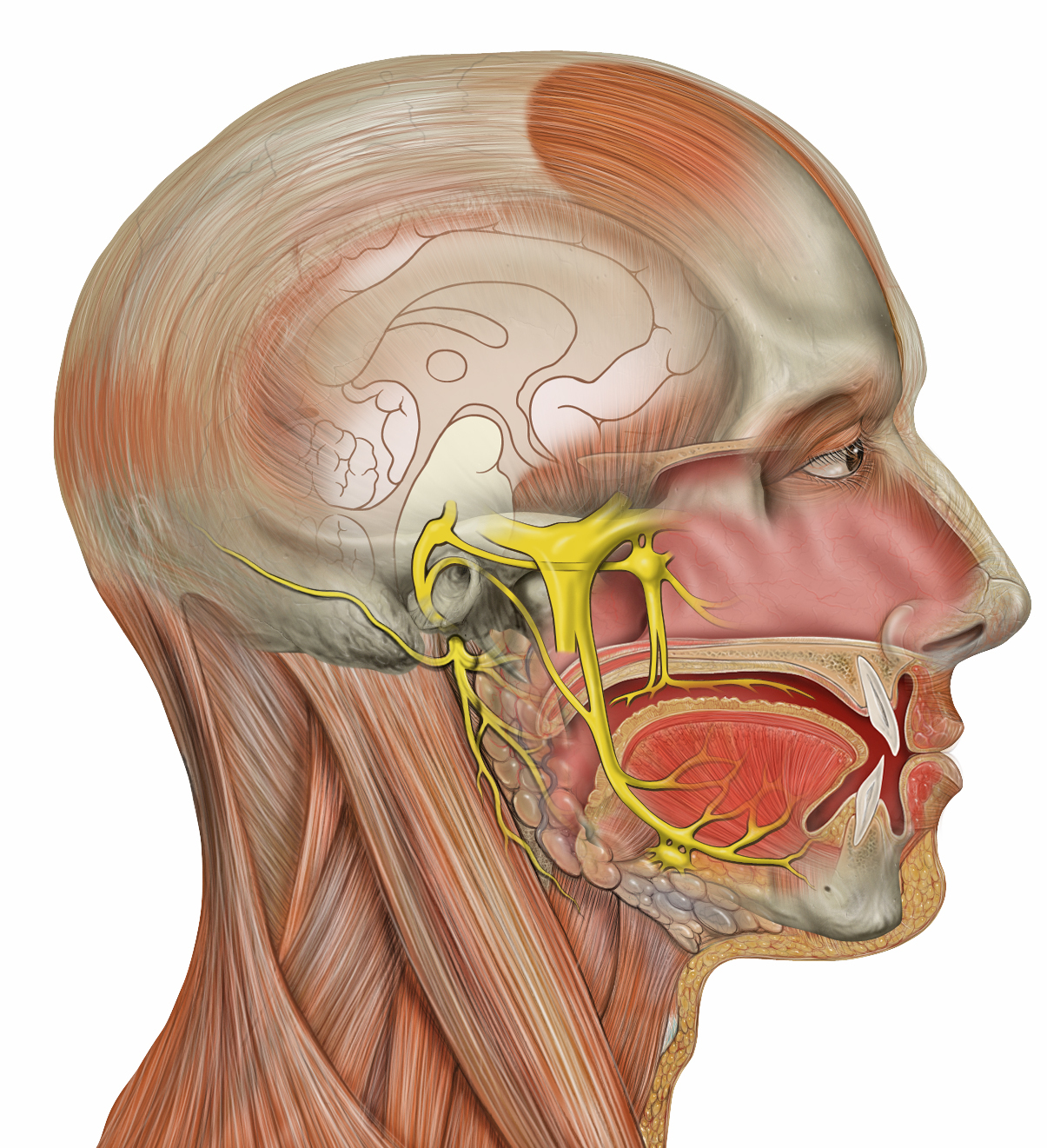 Head deep facial and trigeminal nerves